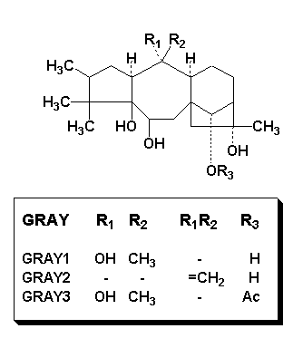 This file originally existed under the name "Gray.gif"; however, another, totally different file was uploaded with that name. This document represents the structure of Grayanotoxin, and was retrieved from It was originally uploaded by user:Lee Cremeans.